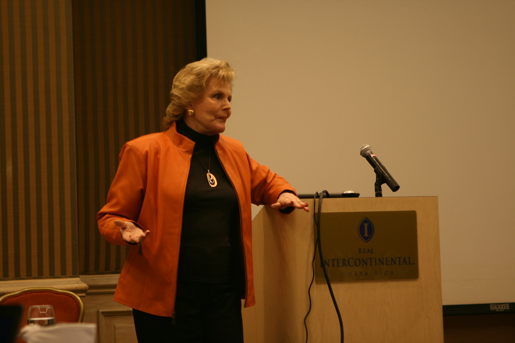 Sonia Picado Sotela (born 1936), jurist, diplomat and politician from Costa Rica; professor at the Universidad de Costa Rica (1972-2003), judge at the Inter-American Court of Human Rights (1988-1994); ambassador of Costa Rica to the United States (1994-1998), member of the Legislative Assembly of Costa Rica (1998-2002)